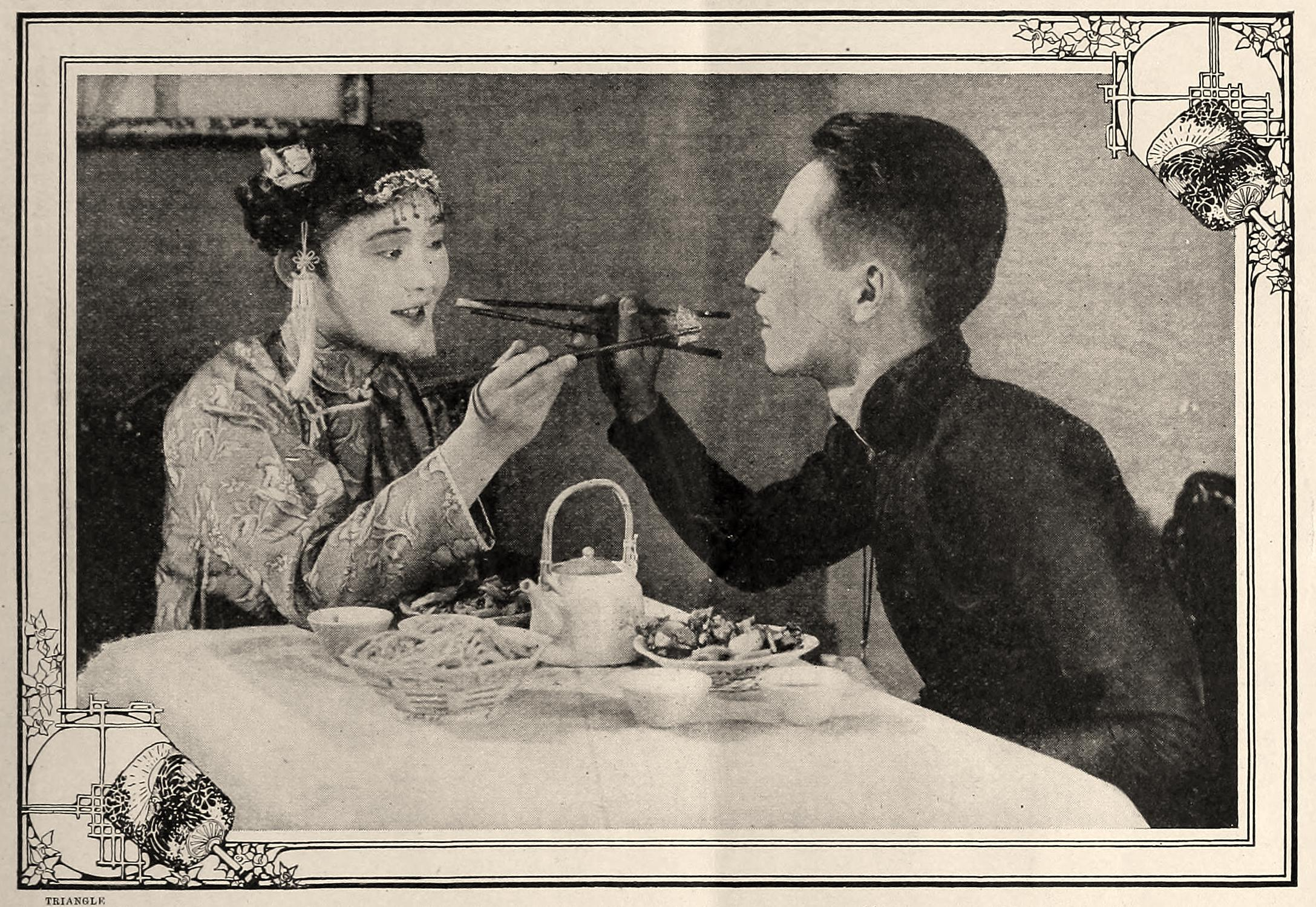 publicity photo got the 1918 film Mystic Faces, featuring Yutaka Abe